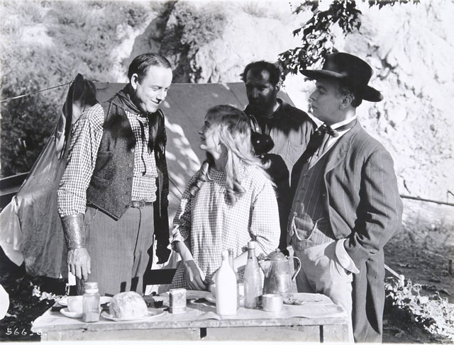 Roy Stewart (left), Ann Forrest (aka Ann Kroman), and Wilbur Higby in the American western film The Medicine Man (1917). The actor in the background is not identified.